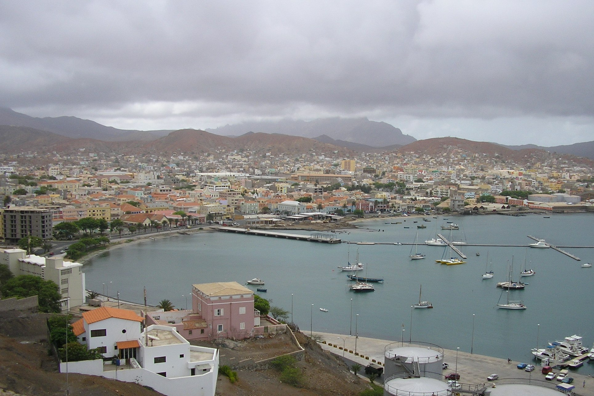 View from Fortim to Mindelo bay and town, São Vicente island, Cape Verde